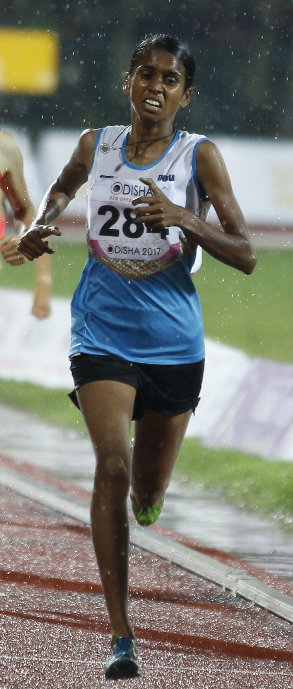 Athletes during 22nd Asian Athletics Championships in Bhubaneswar.